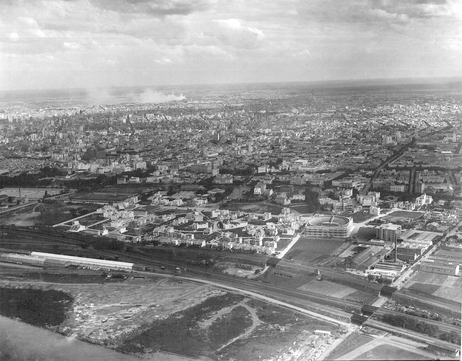 Aerial view of Palermo neighbourhood, circa 1925